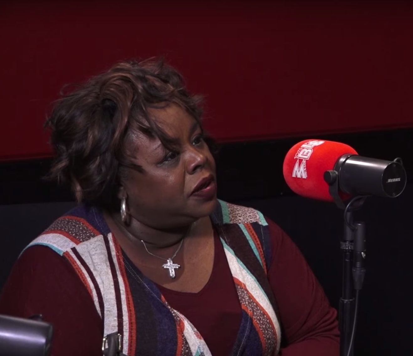 Angela Robinson & Cassi Davis Talk About Meeting Oprah for The First Time